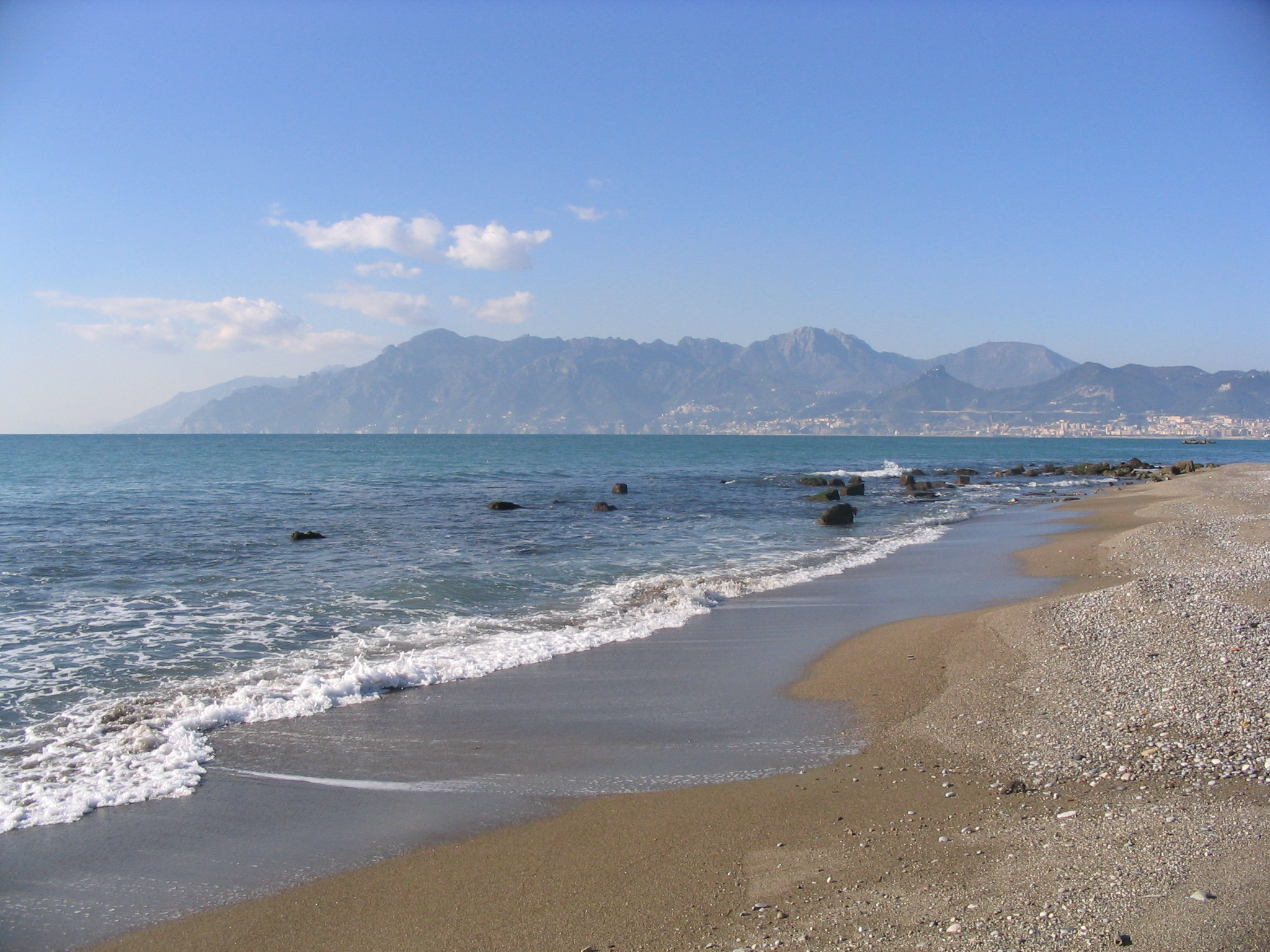 The Gulf of Salerno: Salerno (on the right), the Coast of Amalfi and the Lattari Mountains.